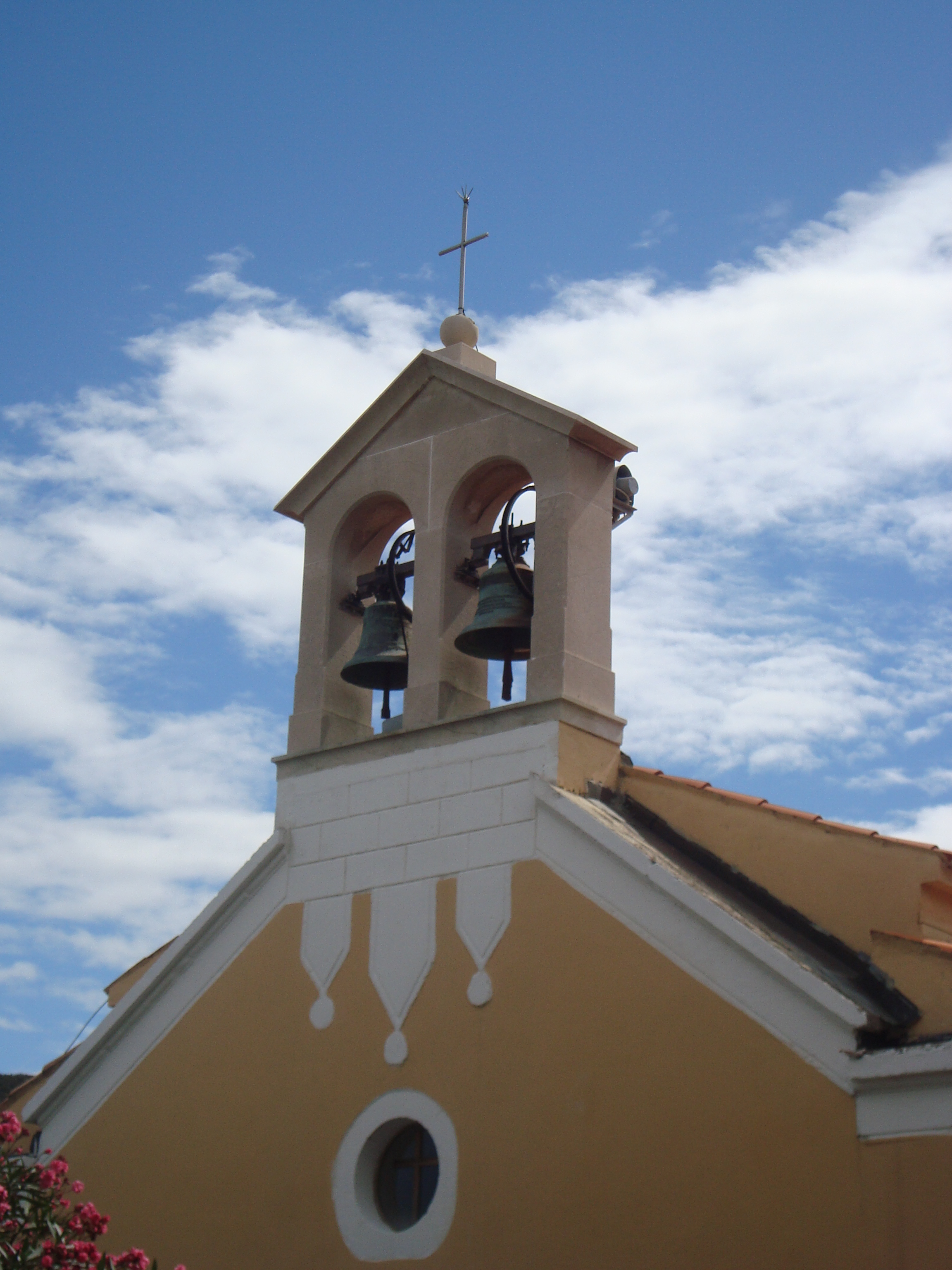 Church of St. James in Soline, Sali municipality, Croatia